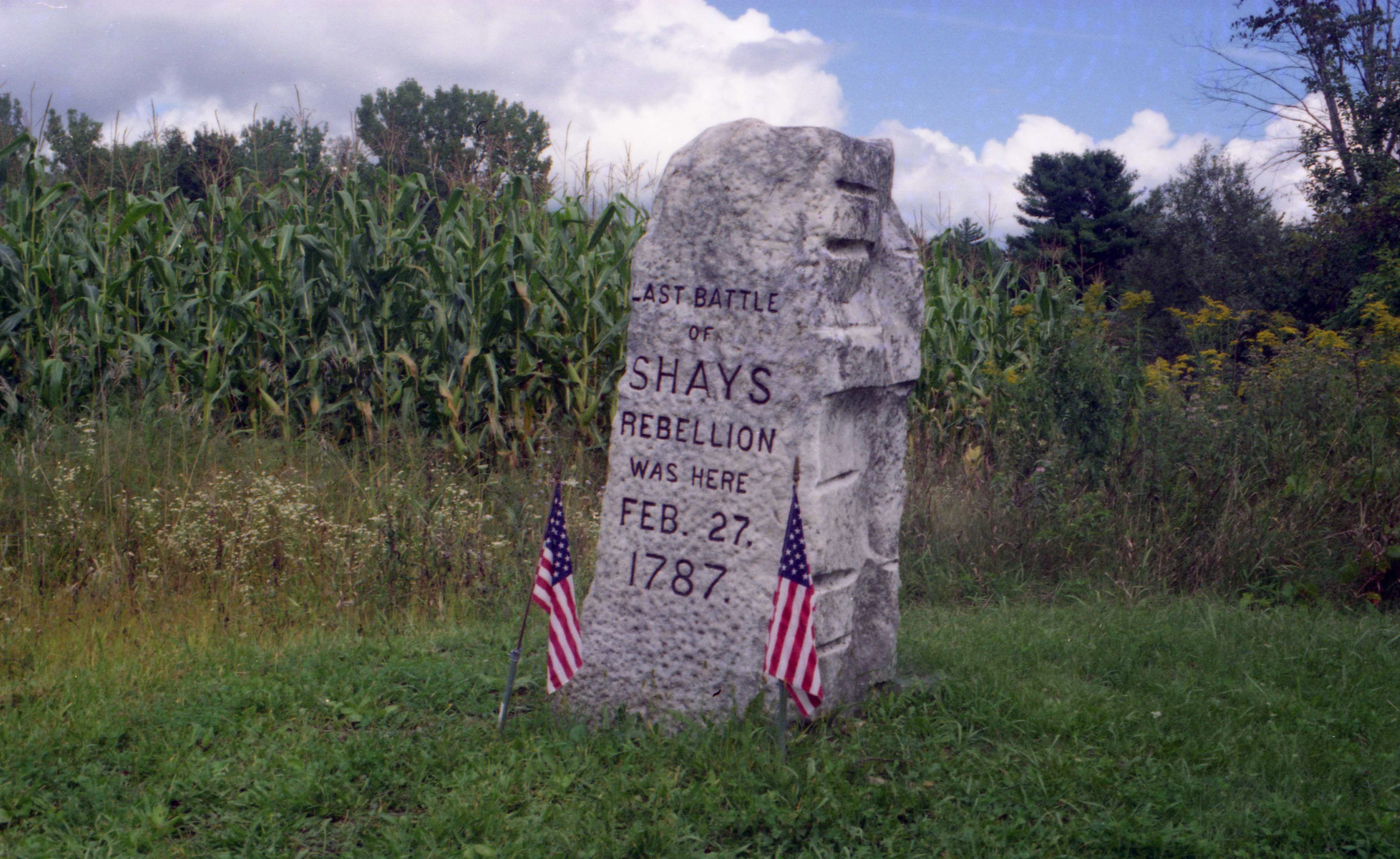 A stone monument resembling a gravestone in a field in Sheffield, Massachusetts commemorating the final battle of Shays' Rebellion. The text on the monument reads 'Last battle of Shays rebellion was here Feb. 27, 1787.'